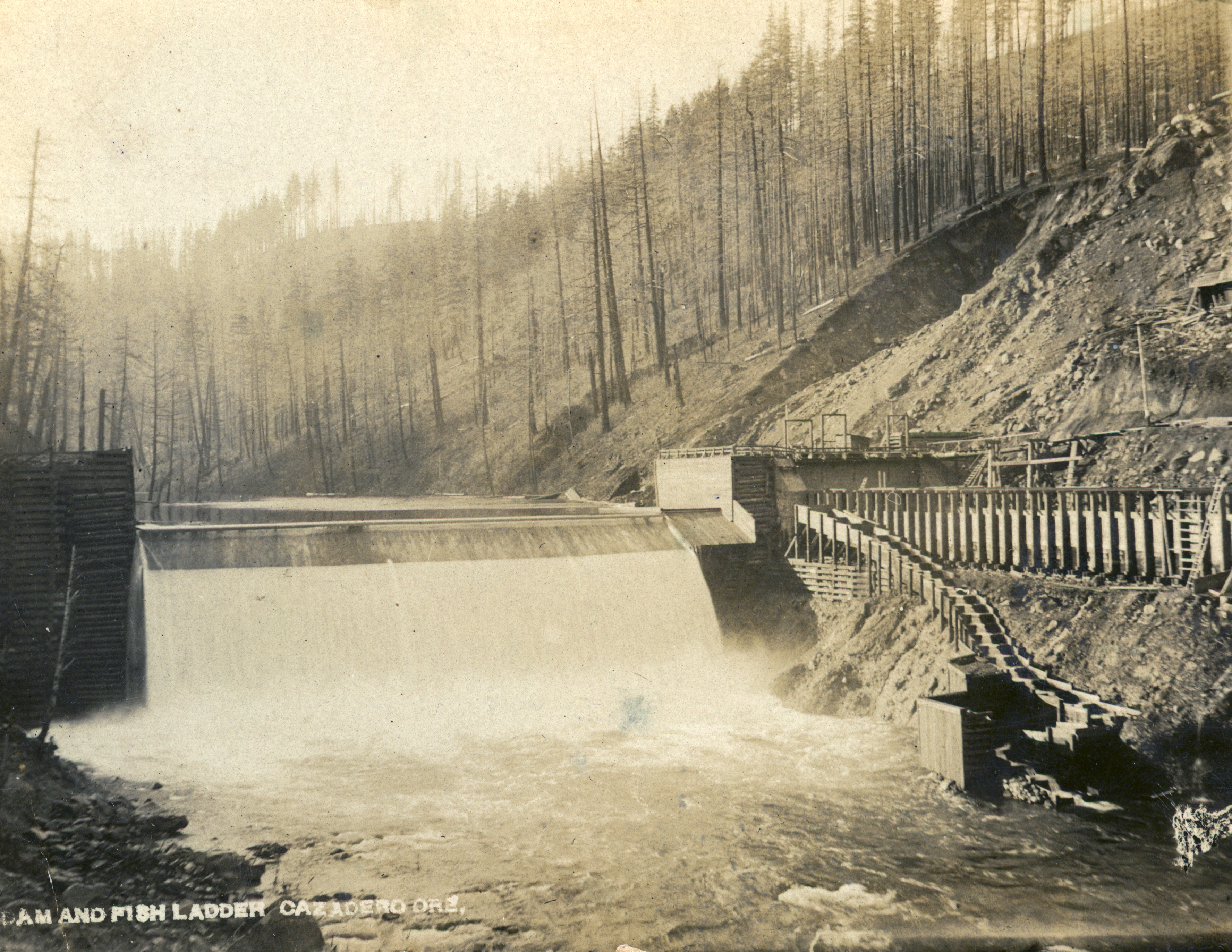 Original Collection: Gerald W. Williams Collection Item Number: WilliamsG:WV Cazadero dam You can find this image by searching for the item number by clicking Want more? You can find more We're happy for you to share this digital image within the spirit of The Commons; however, certain restrictions on high quality reproductions of the original physical version may apply. To read more about what “no known restrictions” means, please visit the or contact staff at the OSU Special Collections & Archives Research Center for details.